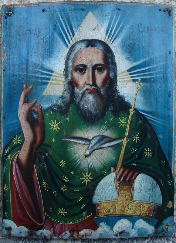 God the Father icon, with orb and triangular Trinitarian halo